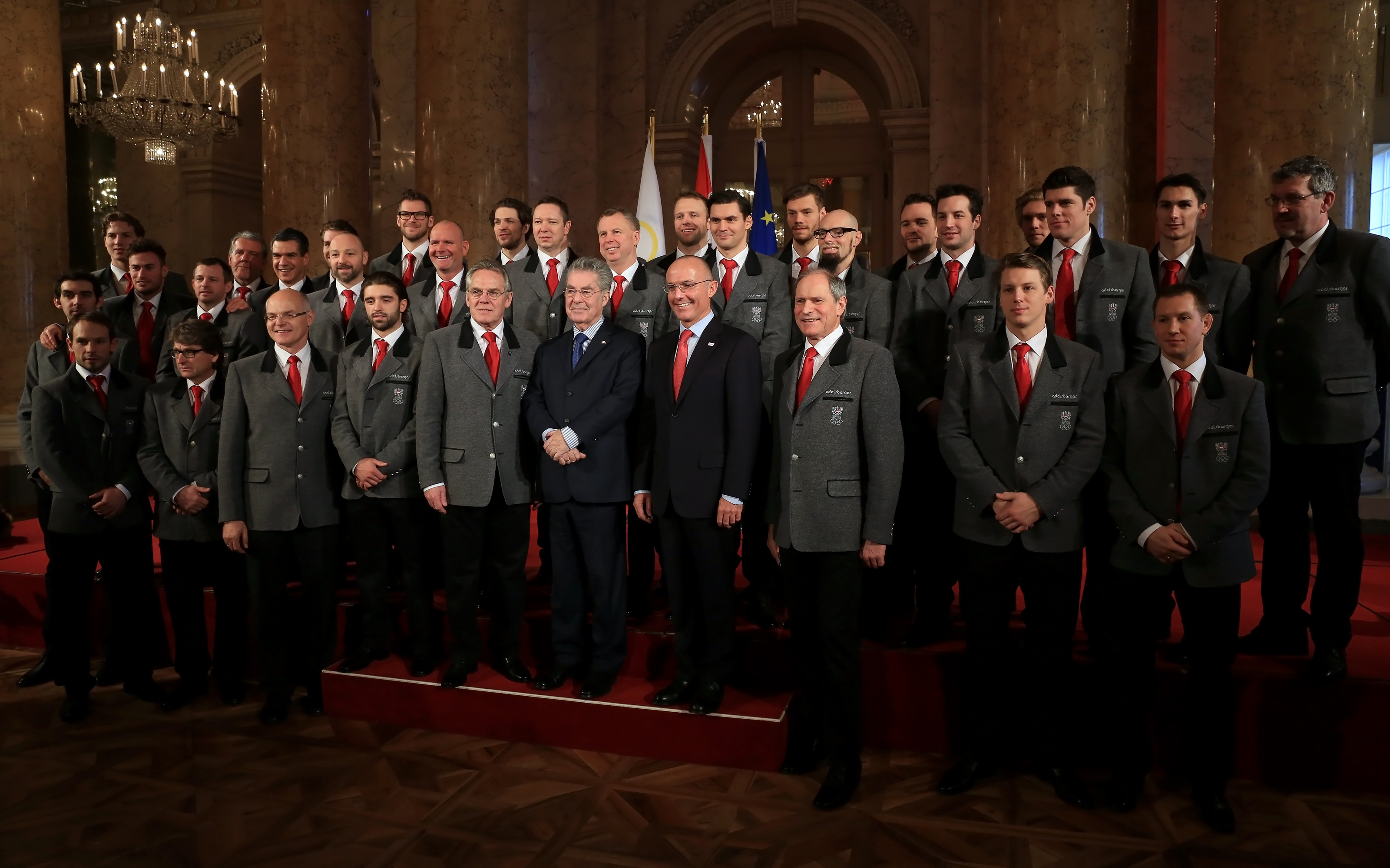 Athletes of the Austrian team for the 2014 Winter Olympics - the ice hockey players and support team with Federal President Heinz Fischer, Federal Minister Gerald Klug and ÖOC officials Karl Stoss and Peter Mennel; group picture taken at Hofburg Palace in Vienna, Austria.